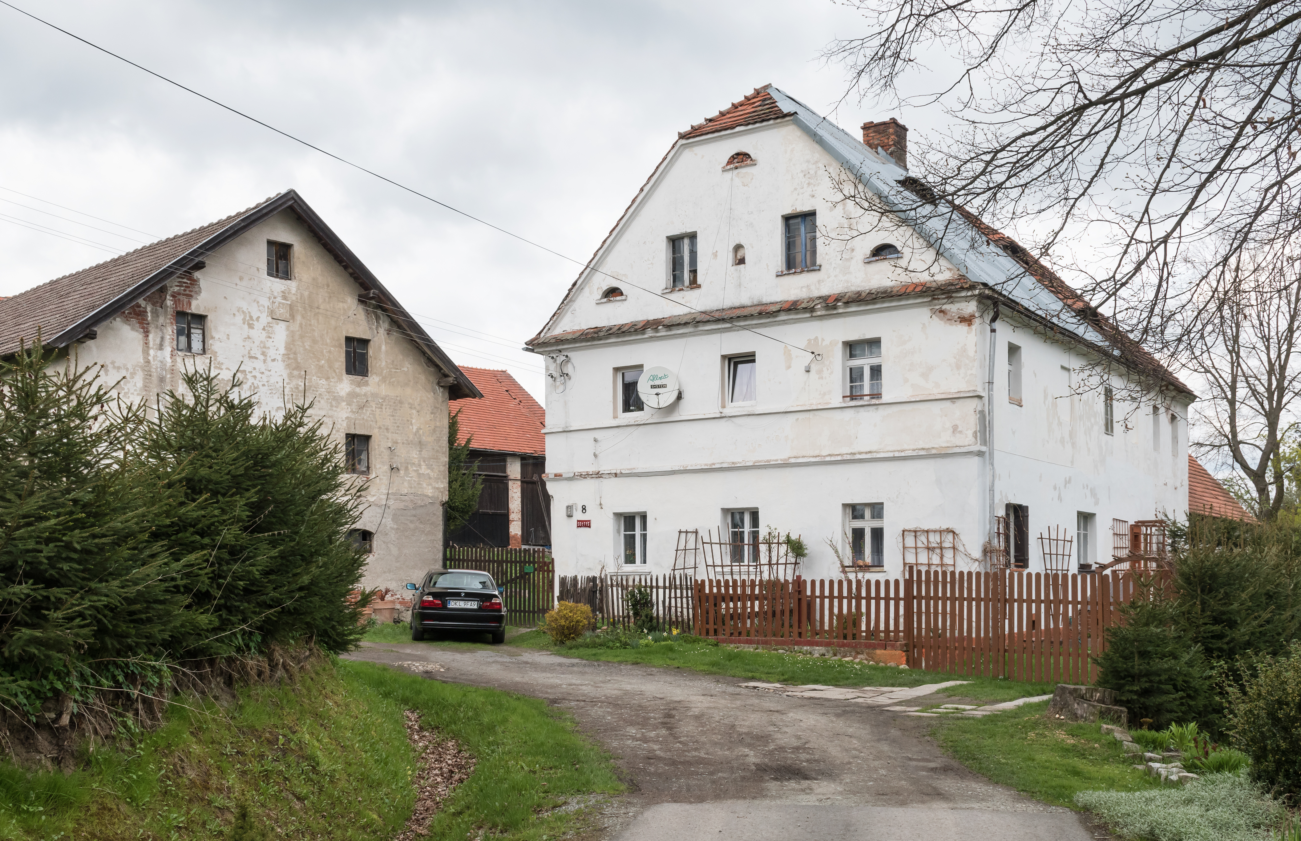 House No. 8 in Mikowice